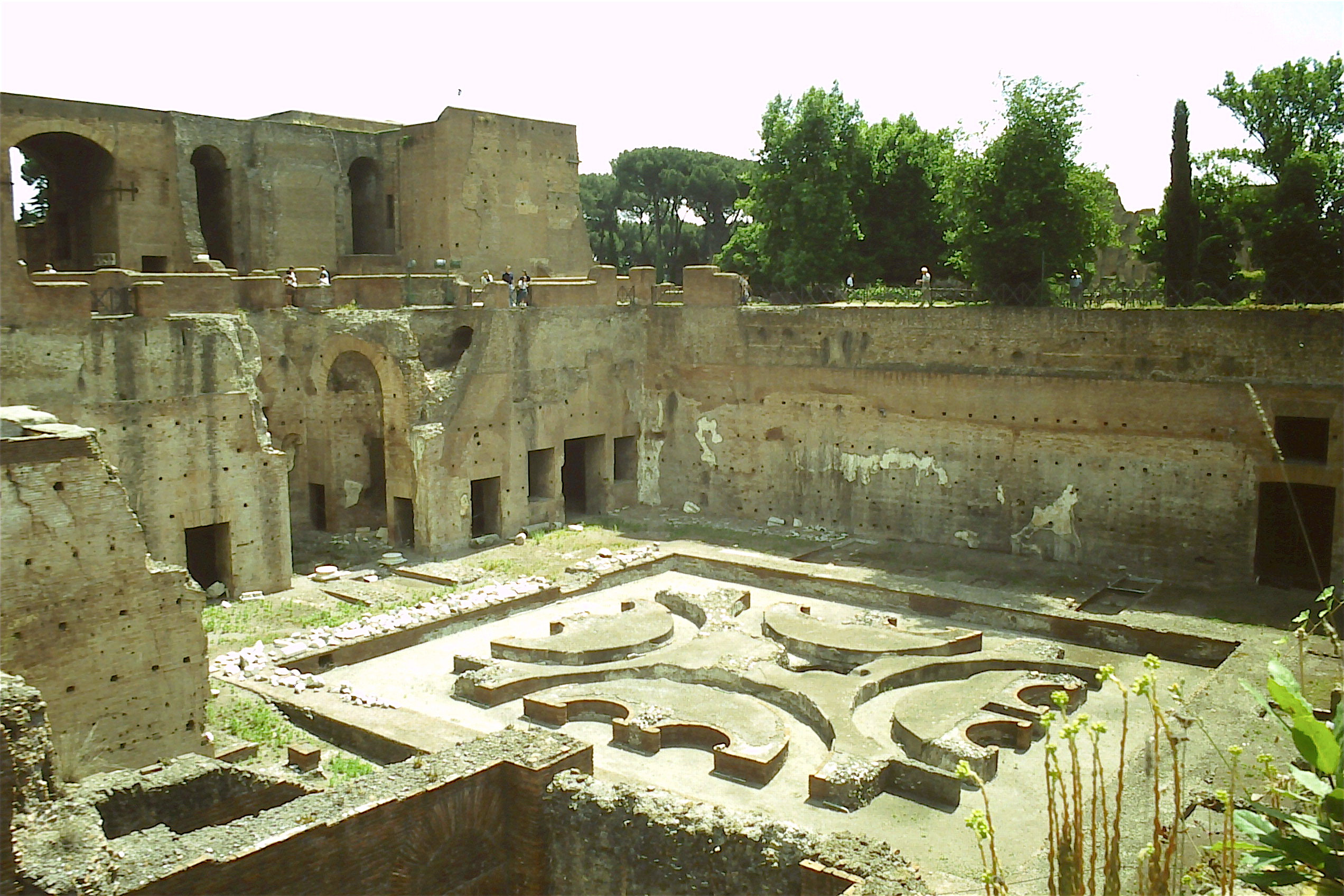 Water garden of the Domus Augustiana